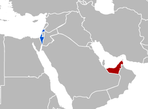 Based on File:BlankMap-FlatWorld6.svg